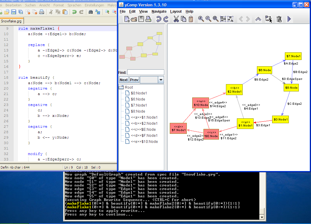 Screenshot of graph rewrite tool , rewrite step, while generating Koch snowflake.